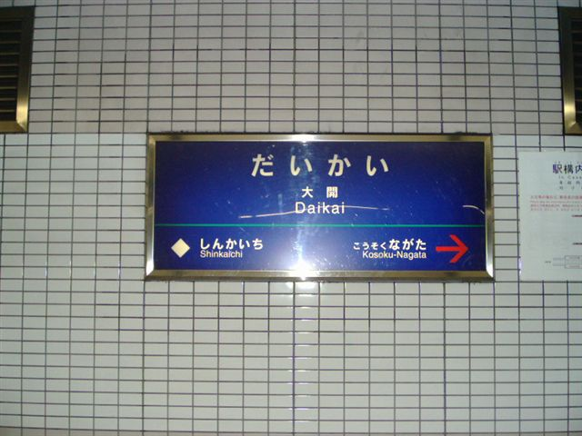 Station sign of Hanshin Kobe Kosoku Line Daikai Station